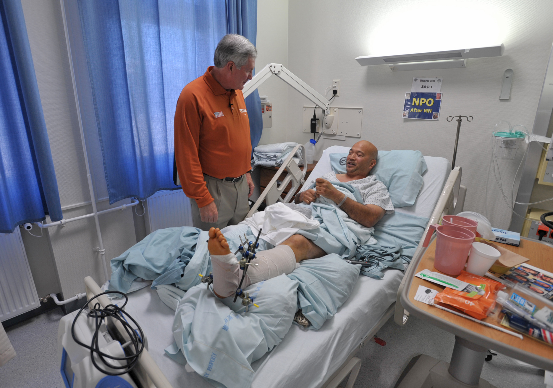 Mack Brown, head football coach at The University of Texas, visits with Henry Bautista at a U.S. military hospital in Landstuhl, Germany. The hospital was one of the first stops for Coaches Tour 2009, a morale-boosting mission that brings NCAA football coaches to U.S. servicemembers and their families. Bautista served 10 years in Army intelligence without any major injuries before he became a civilian field representative for an armored vehicle contractor. He was flown to Germany from Iraq after his leg was severely injured by a mishap with one of the vehicles. The Coaches Tour is organized by Morale Entertainment, LLC., in association with Armed Forces Entertainment.